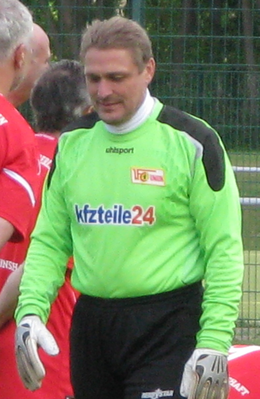 The east german football player Oskar Kosche playing for 1. FC Union Berlin (traditional team).